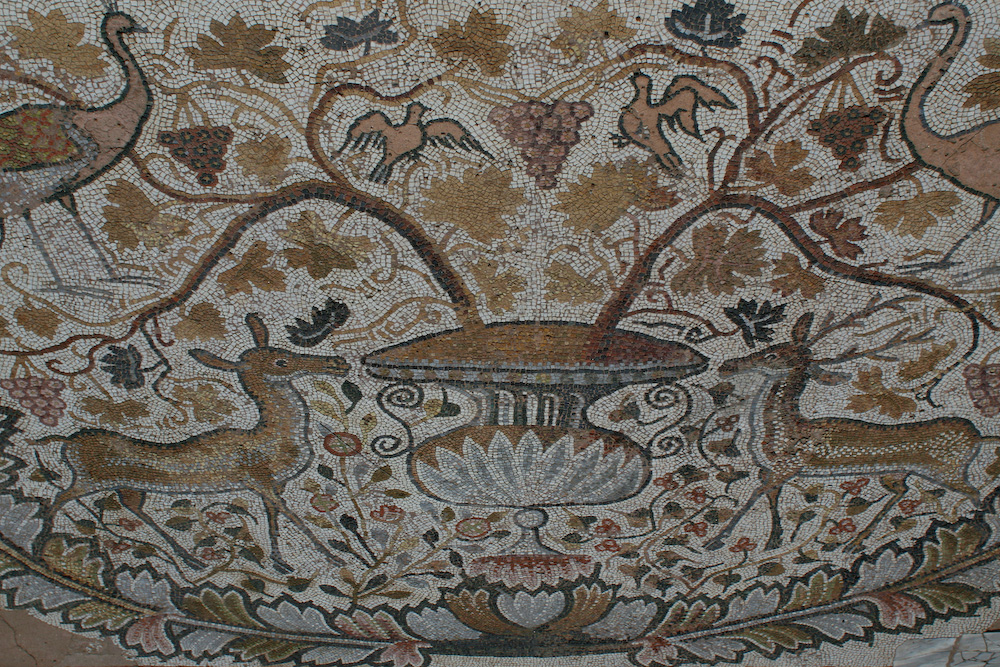 Heraclea Lincestis, Repubic of Macedonia.